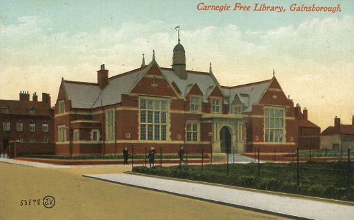 Postcard c.1905 of the Free Library at Gainsborough, Lincolnshire